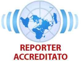 Italian-language version of Accredited reporter es.PNG